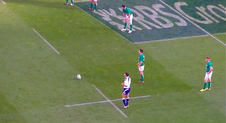 Sexton in action for reland